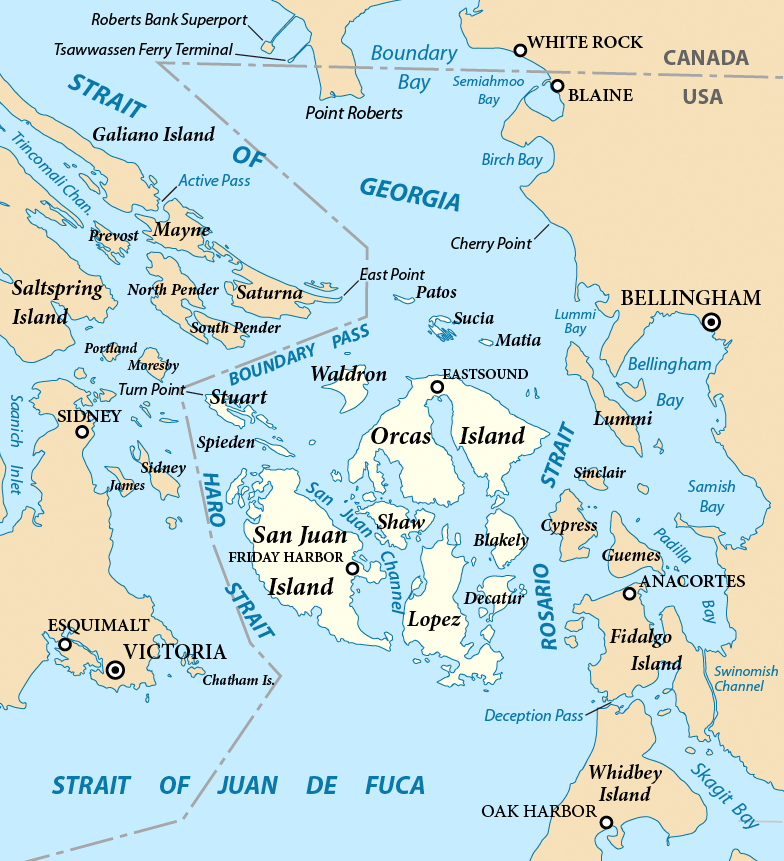 Map of the San Juan Islands (highlighted) and surrounding region. Created with ArcExplorer and Adobe Illustrator. Based on on GeoBase and The National Map data. Map projection: Washington State Plane North (State Plane Coordinate System).